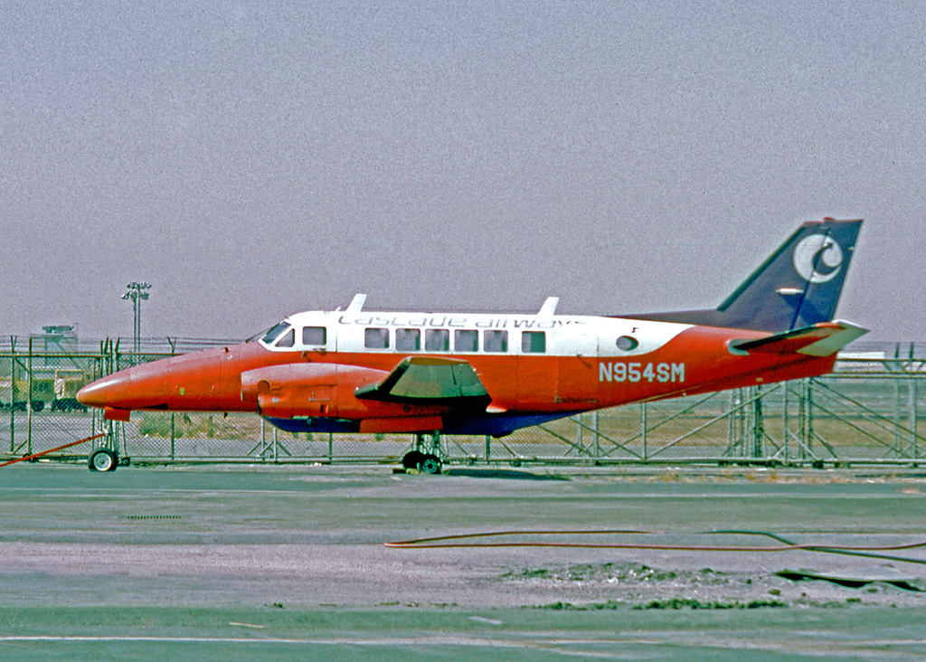 Beech 99 N954SM of Cascade Airways at LAX in 1973